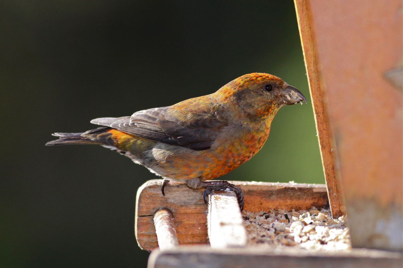 A male and two females were at my feeders in Two Hills County on May 20 and 21, 2012